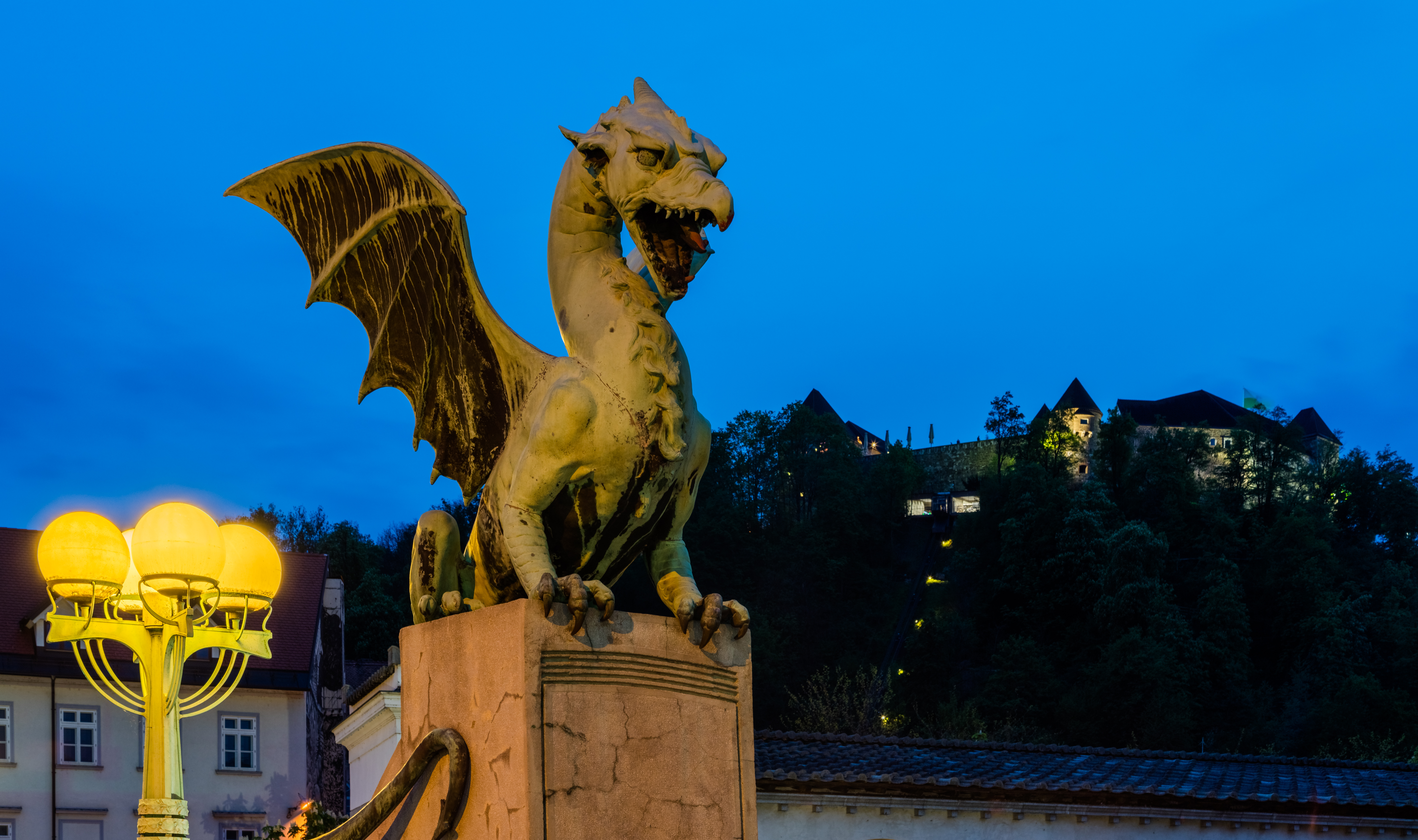 Dragons on the Dragon Bridge, Ljubljana, Slovenia